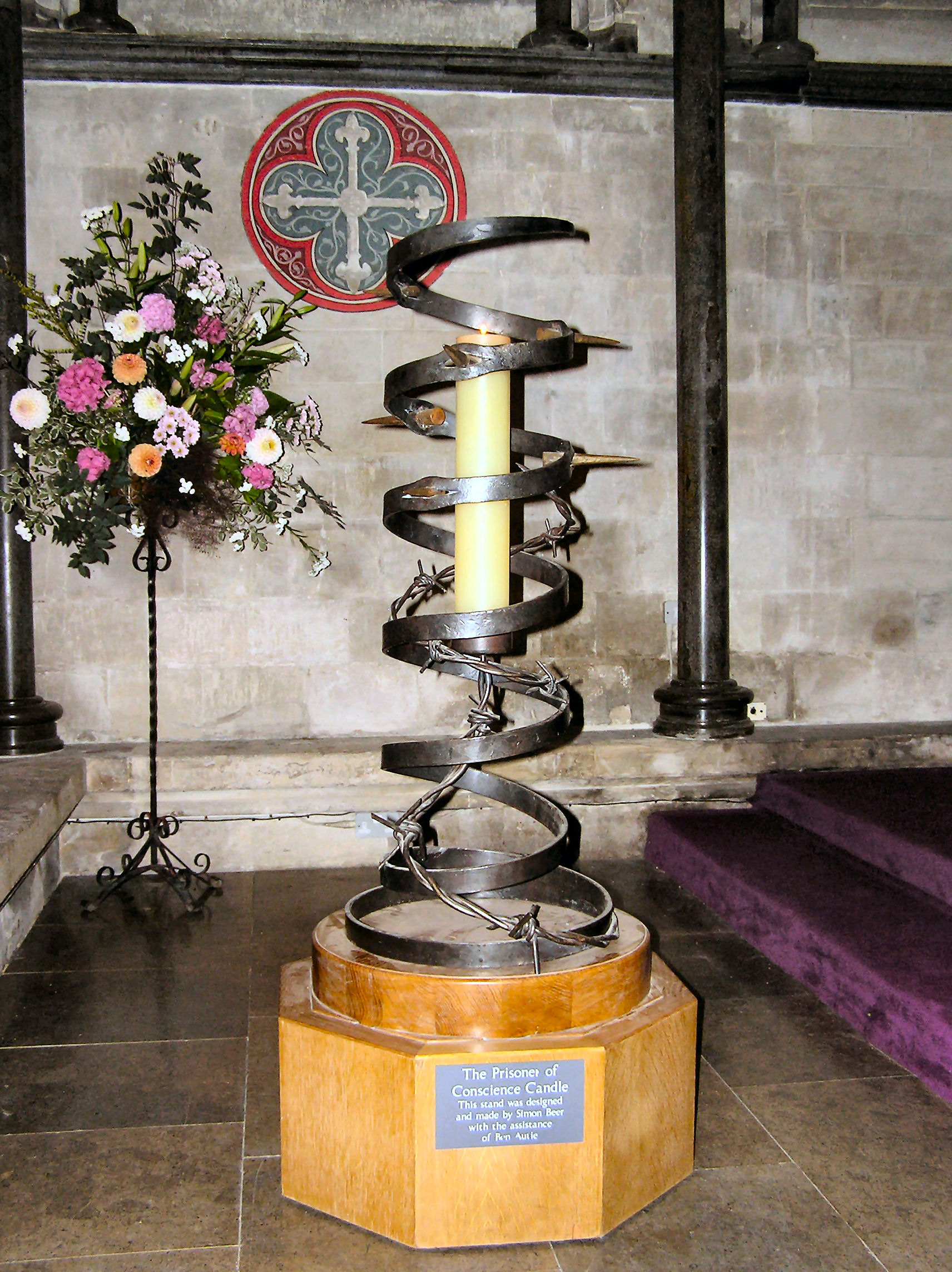 Amnesty candlestick, Salisbury Cathedral